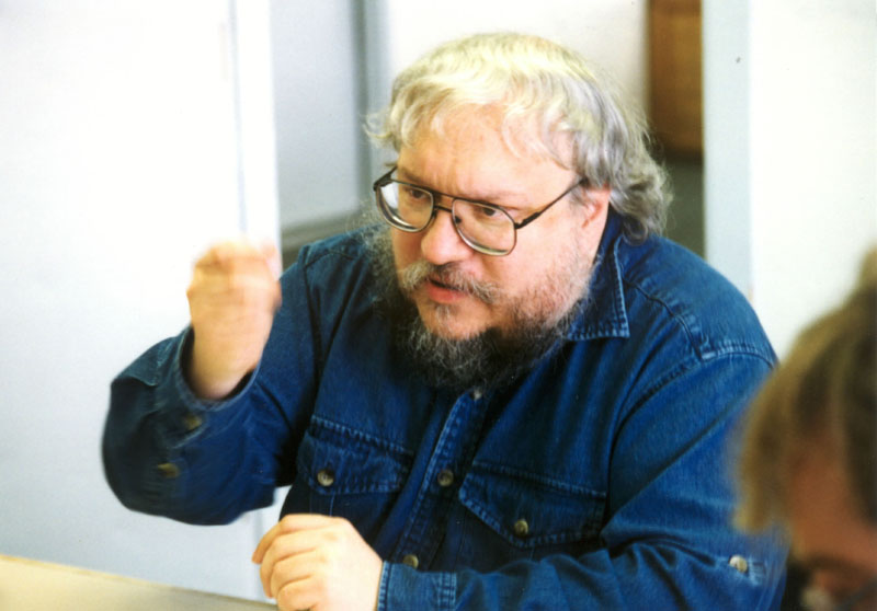 George R.R. Martin at Clarion West 1998. Scanned from a print June 2006.